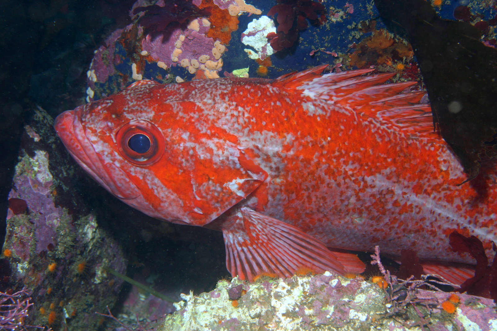 Vermilion rockfish (Sebastes miniatus) pausing for the camera near Point Lobos. Vermilion can be confused with Canary rockfish by some divers.